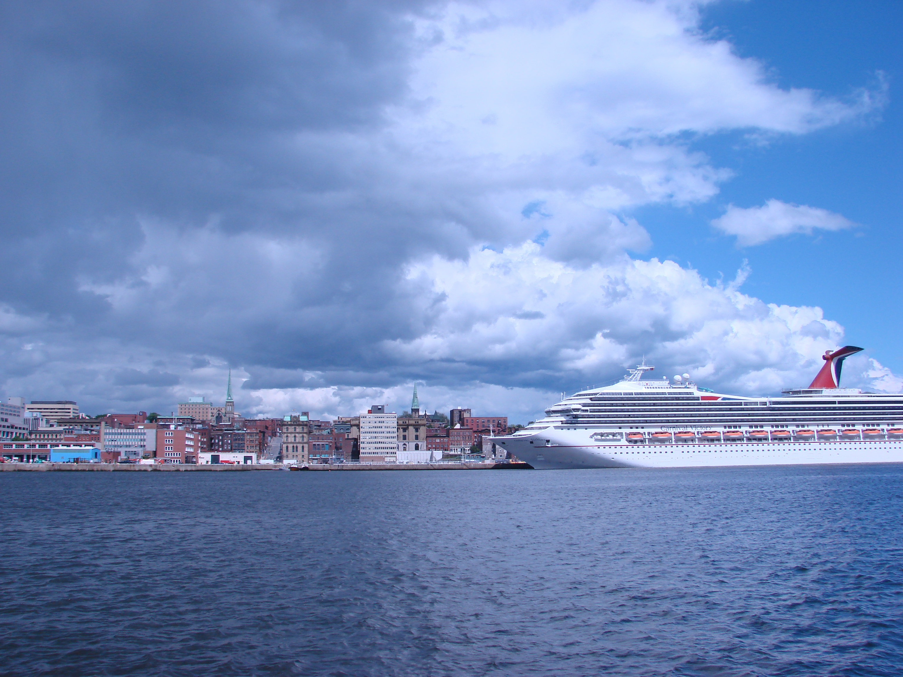 Carnival Victory docked in Saint John, New Brunswick